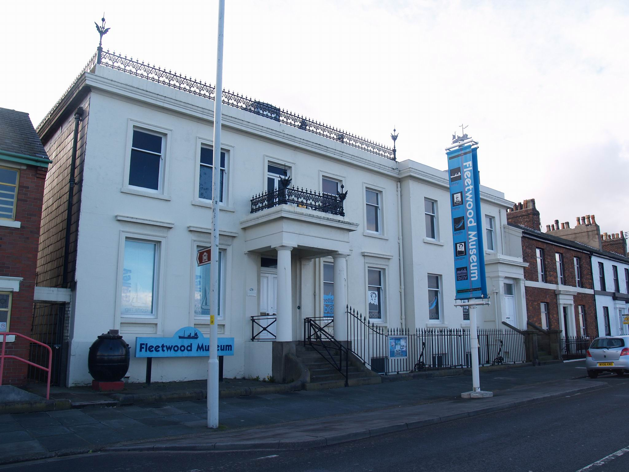 Fleetwood-Mar 2008-Fleetwood Museum - The old Custom House and Town Hall (1838)